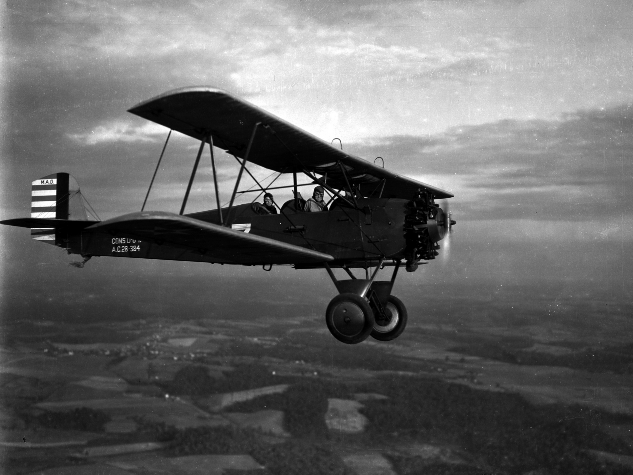 A Consolidated O-17 assigned to the Maryland National Guard's 104th Observation Squadron during a mission on 11 September 1931. The 104th was equipped with O-17s from July 1928 to July 1933.